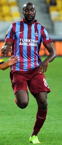 Mustapha Yatabaré